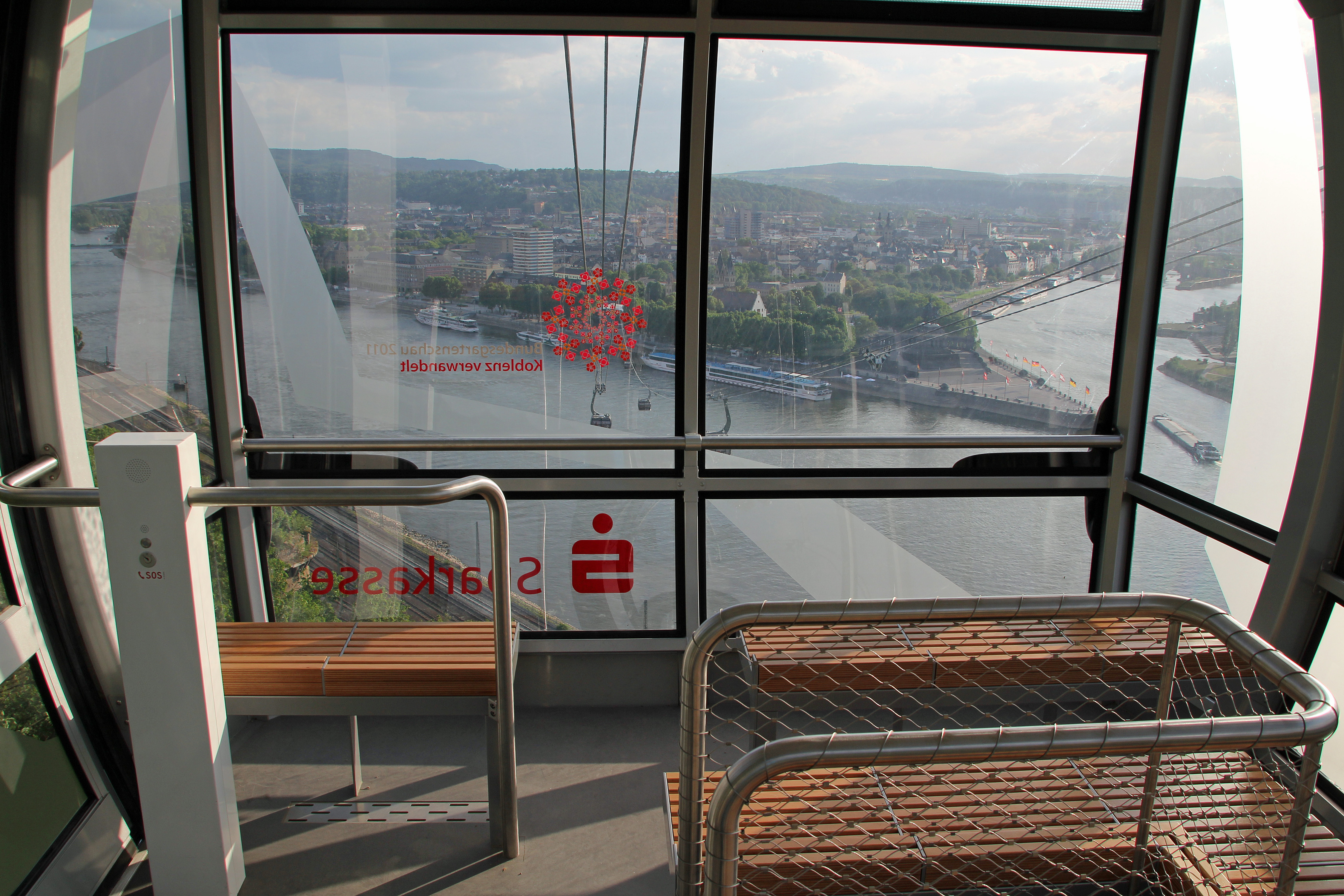 Koblenz Cable Car